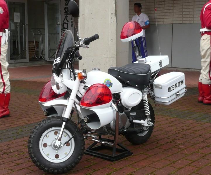 Honda Monkey police motor cycle.